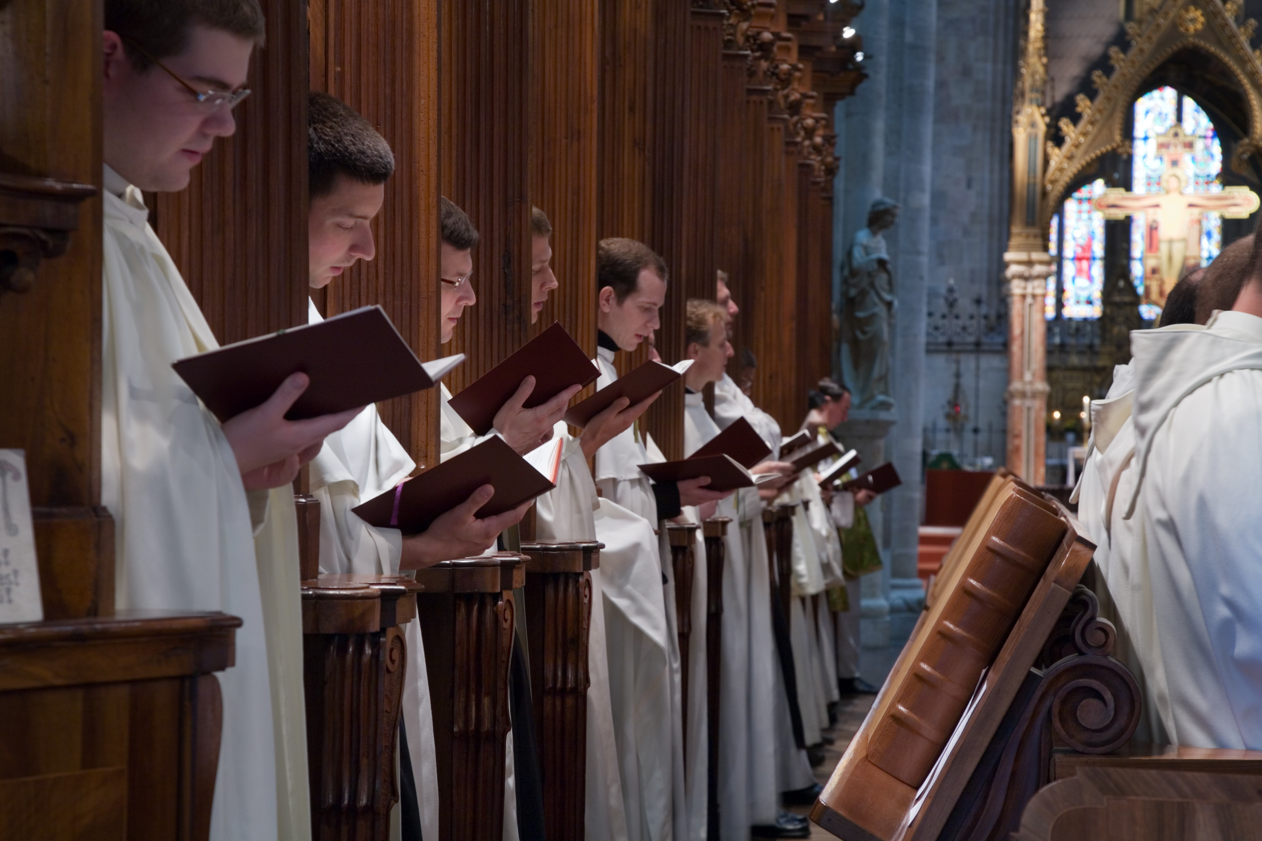 Religiuos service and monk choir. Heiligenkreuz Abbey, Austria